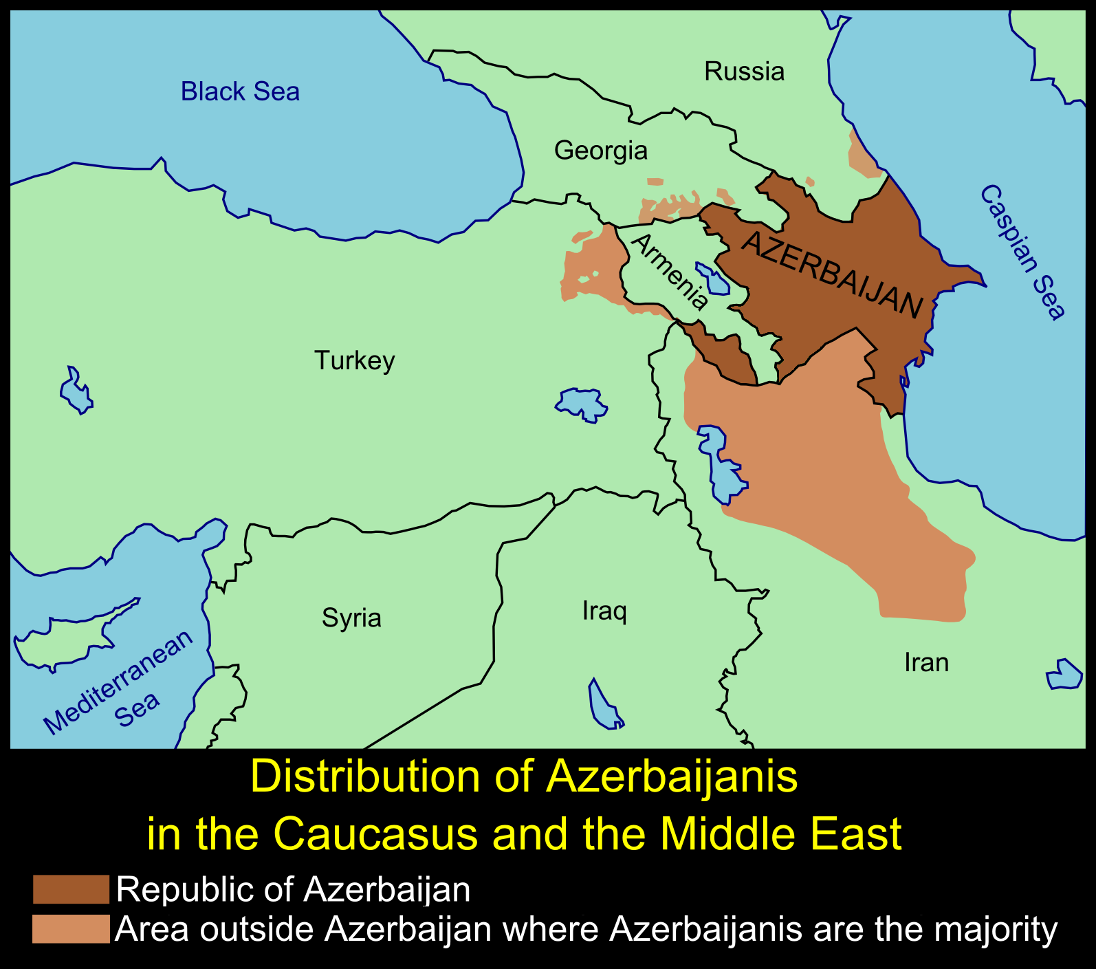 Distribution of Azerbaijanis in the Caucasus and the Middle East